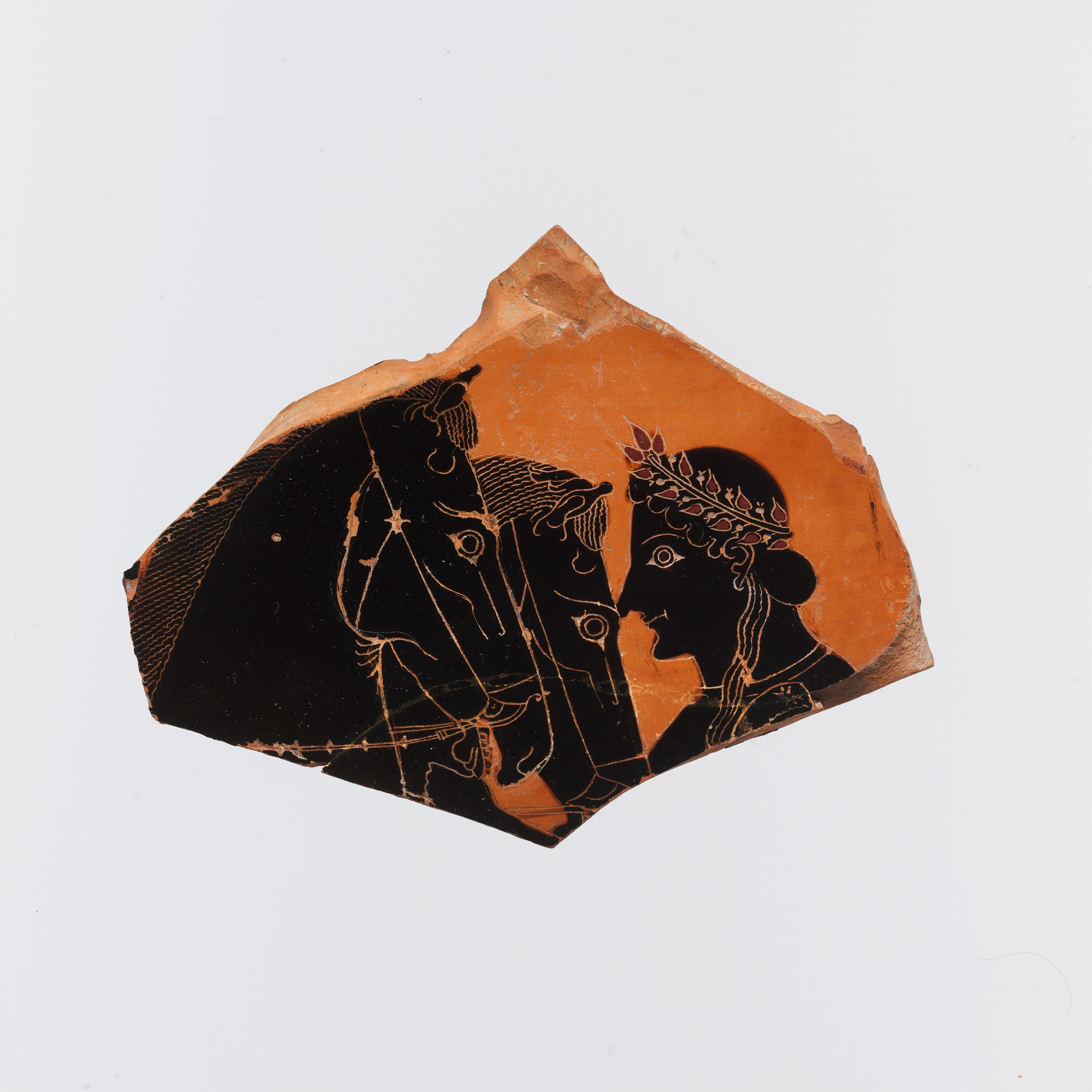 Greek, Attic; Amphora fragment; Vases